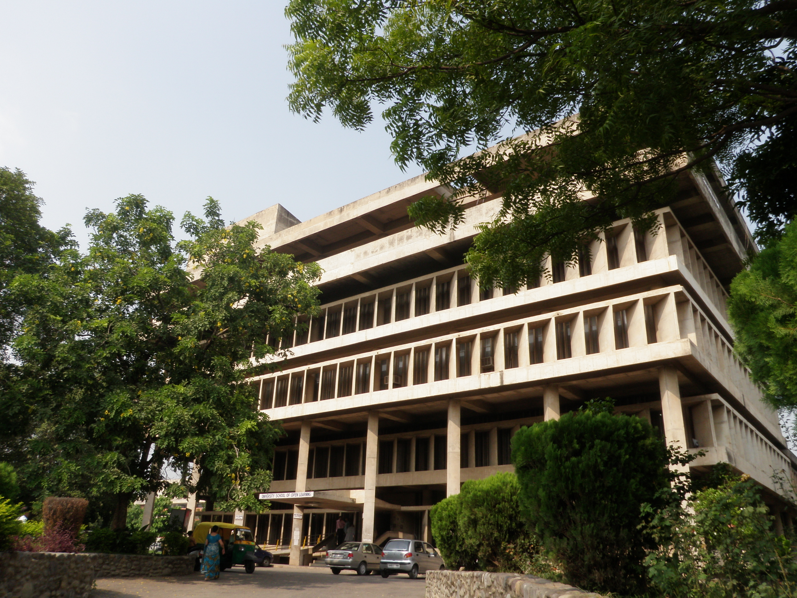 Panjab University by Pierre Jeanneret